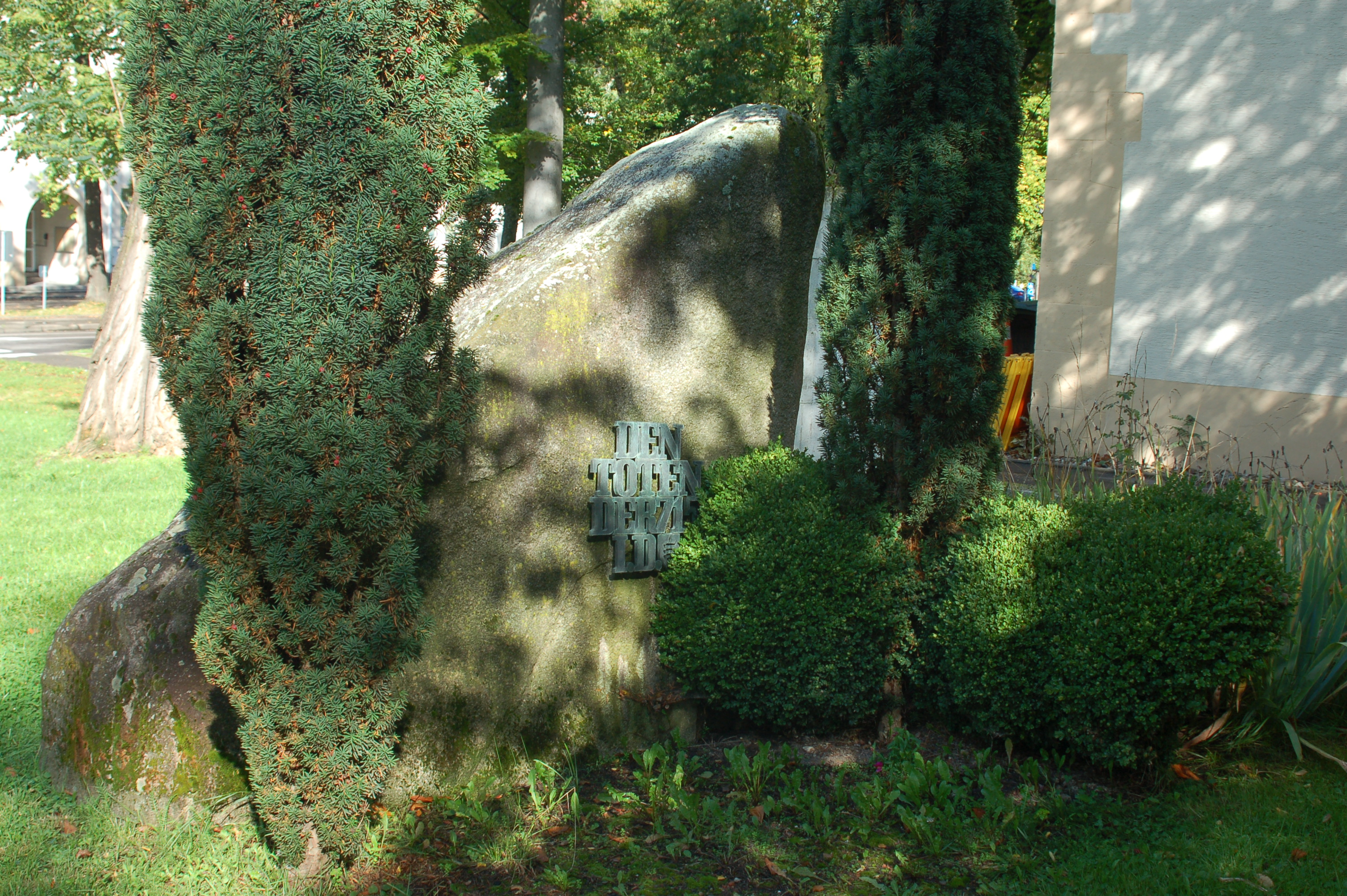 A memorial to the German 715th Infantry Division on Patch Barracks in Stuttgart, Germany. It reads "DEN TOTEN DER 715 I.D." It is located at the south end of the GEN Bernard W. Rogers Partnership Conference Center.